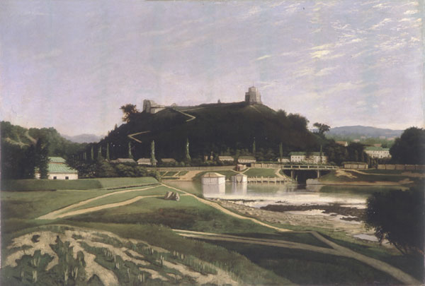 Gediminas Hill in Vilnius, lt: Gedimno kalnas , oil on canvas, National Museum of Lithuania.